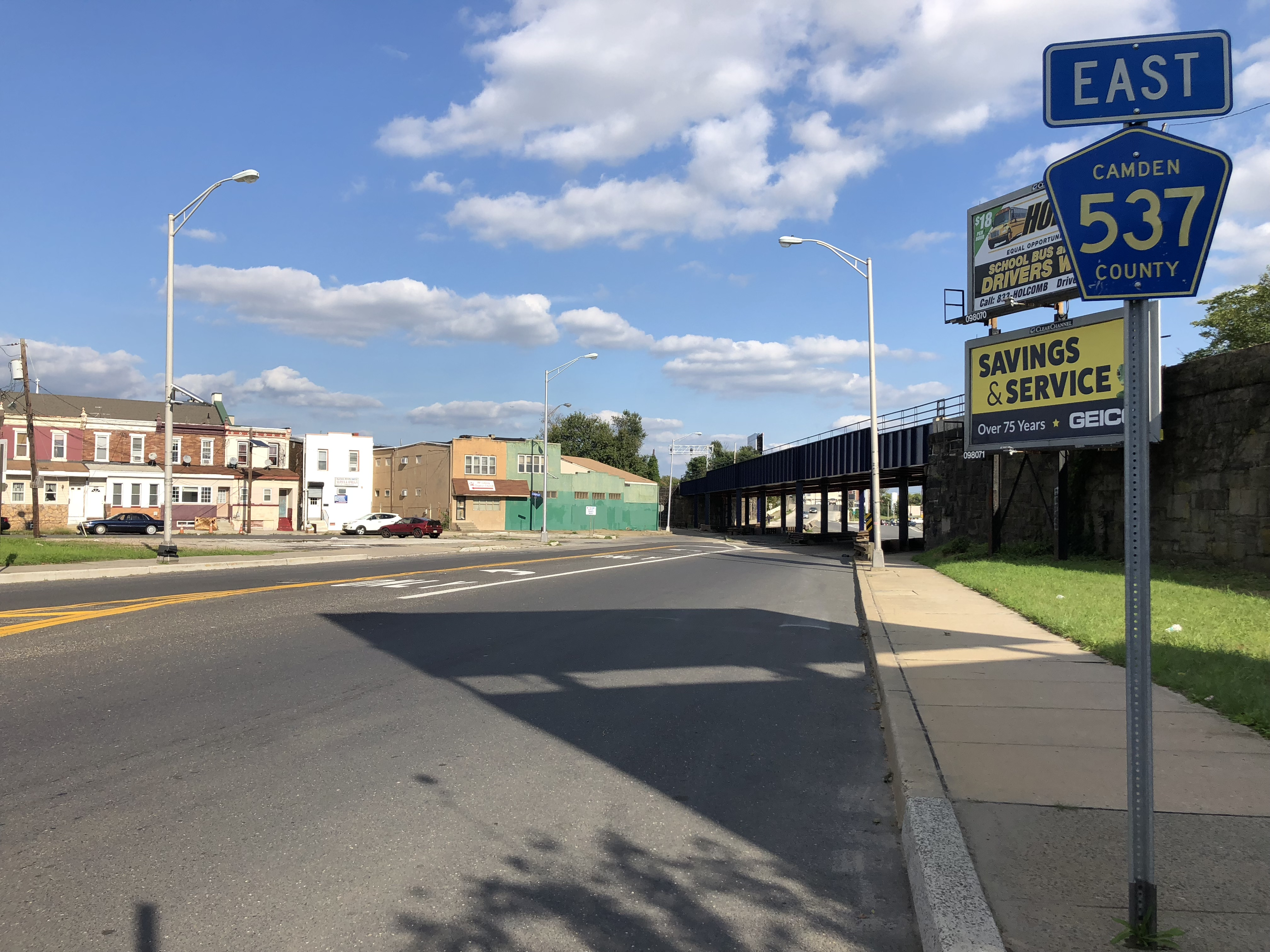 View east along Camden County Route 537 (Federal Street) just east of 11th Street in Camden, Camden County, New Jersey